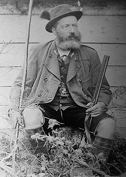 Johann Haller (born 30 June 1844; died 16 February 1906); Austrian North Pole-expedition participant and forester